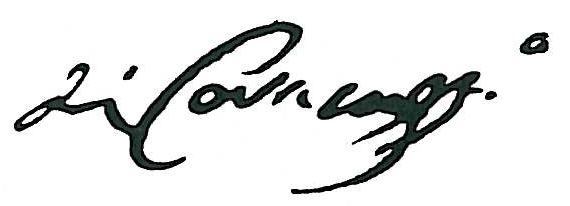 autograph of the painter Caravaggio